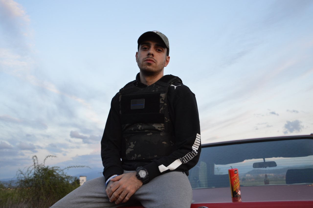 Serbian rapper Miljan Stamenkovic, better known as Brzo Trci Ljanmi.